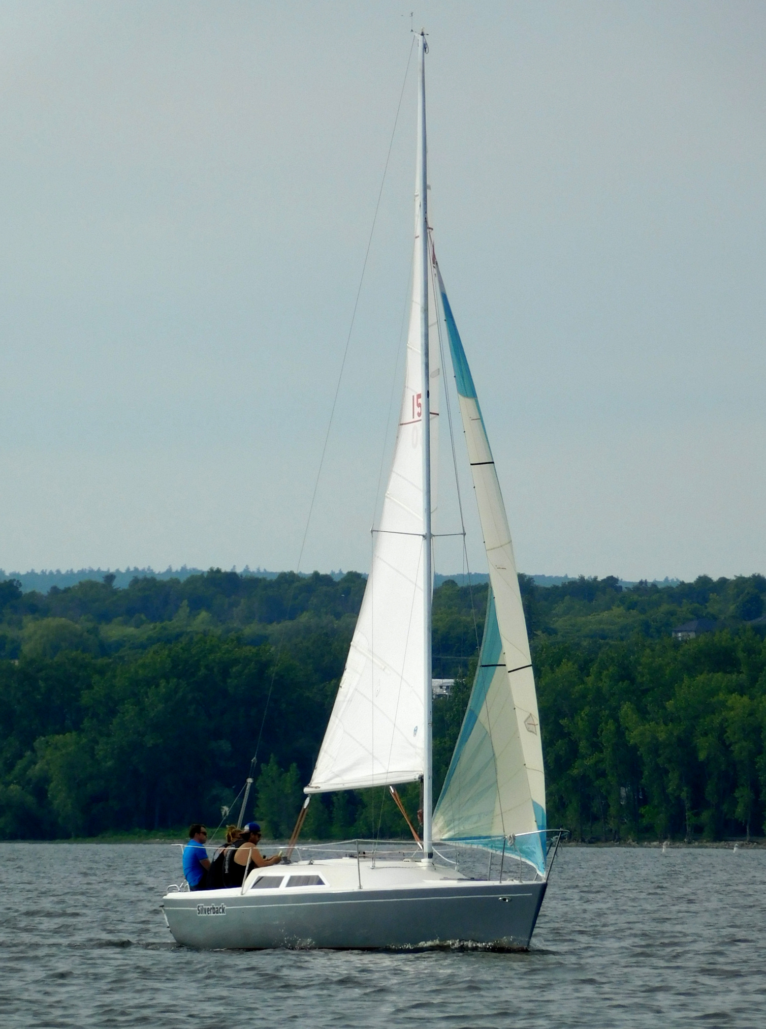 A Bombardier 7.6 sailboat named Silverback.